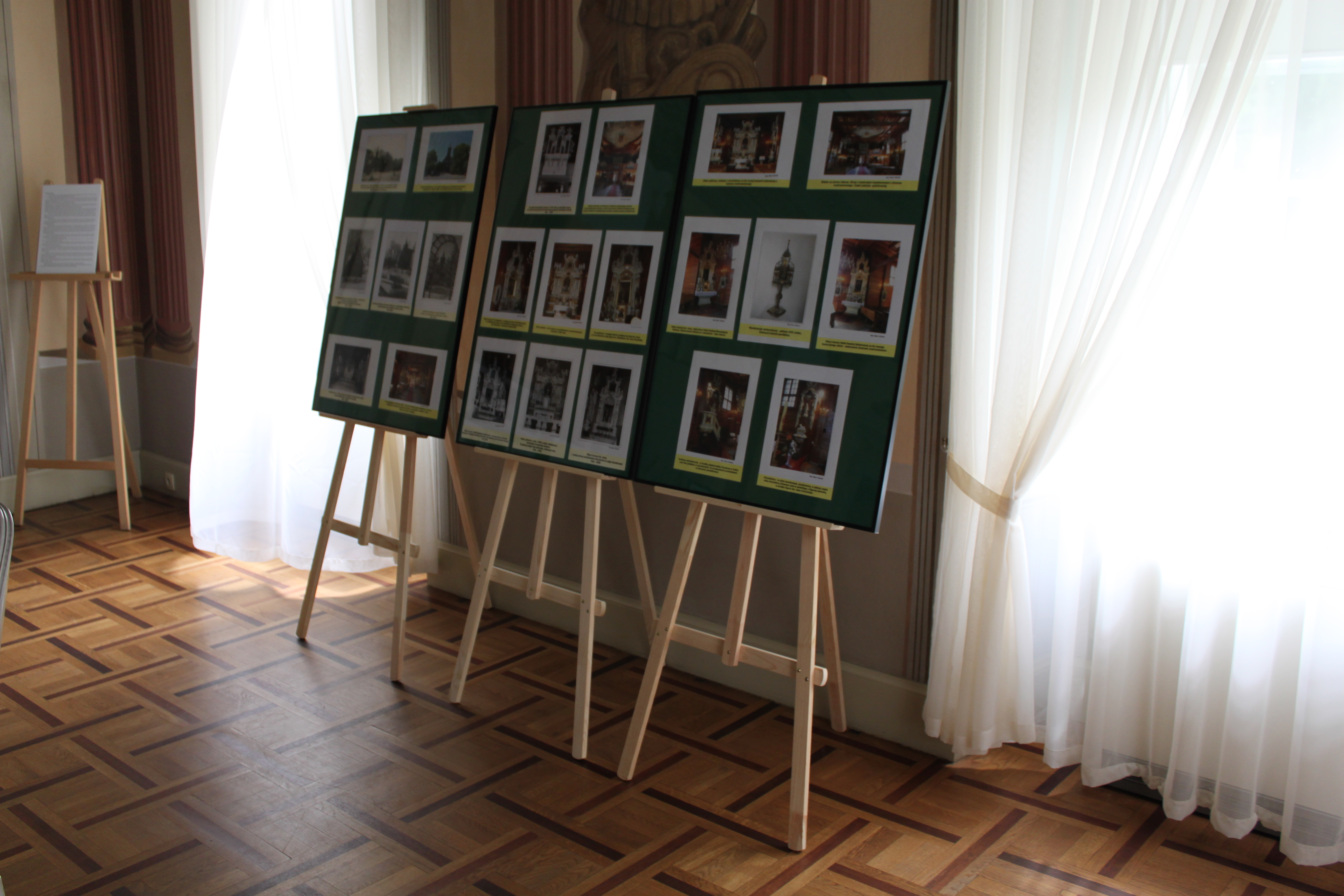 wystawa